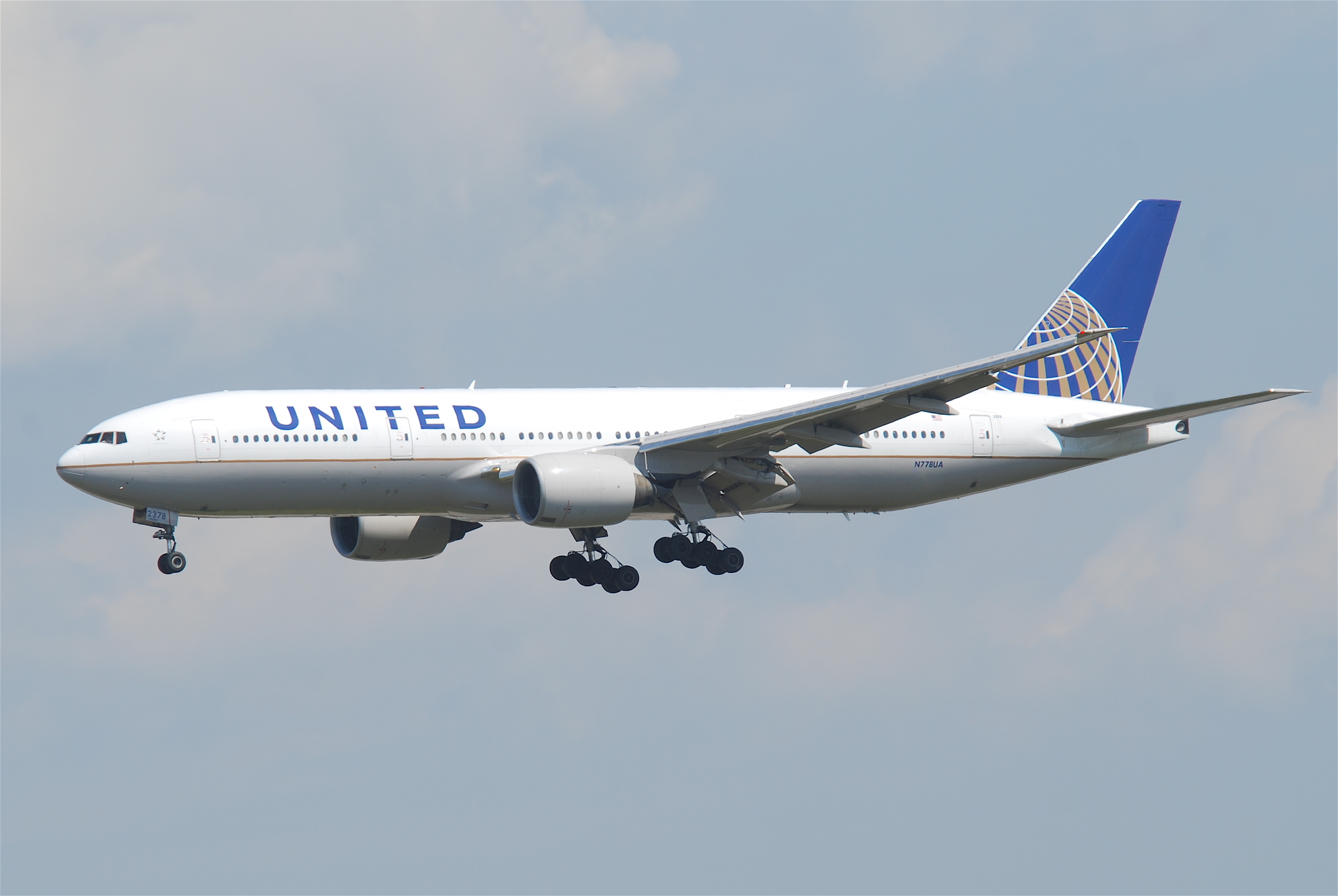 First flight: June 27, 1996 and delivered to UA on July 18, 1996...(c/n 26940/ 34)